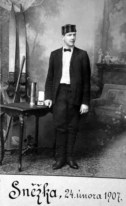 Bohumil Hanč after winning the first Ski championship in 1907.